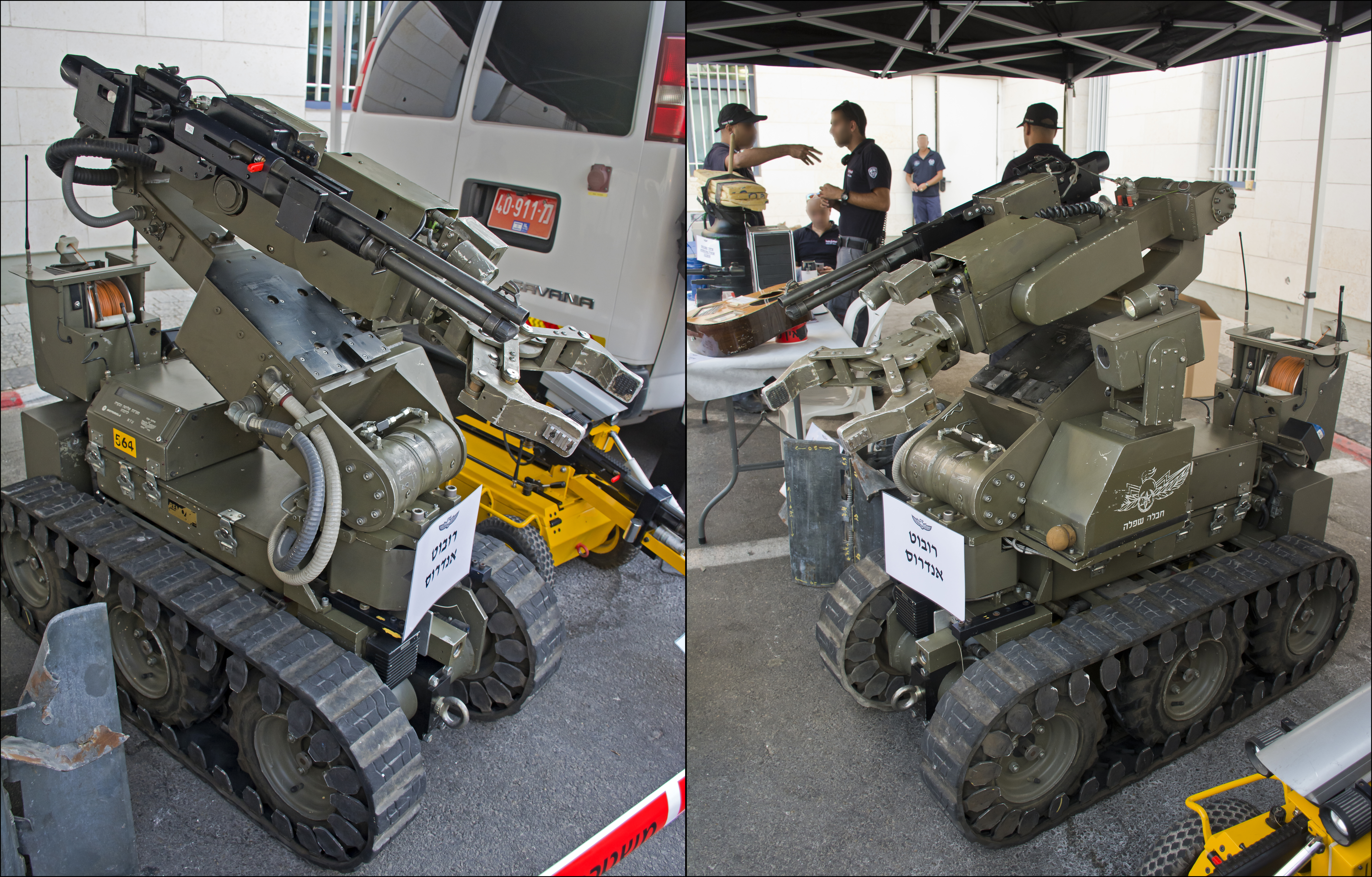 RemoTEC Andros Wolverine EOD Robot, Israeli Police Open Day in Rishon LeZion